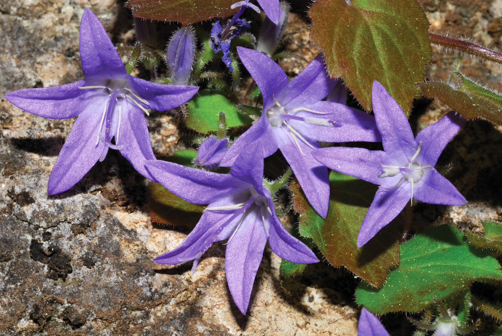 This is a photography of Natura 2000 protected area with ID GR2220002